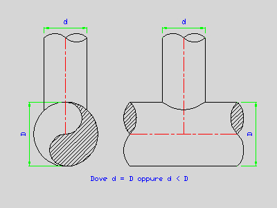 Tee (piping)